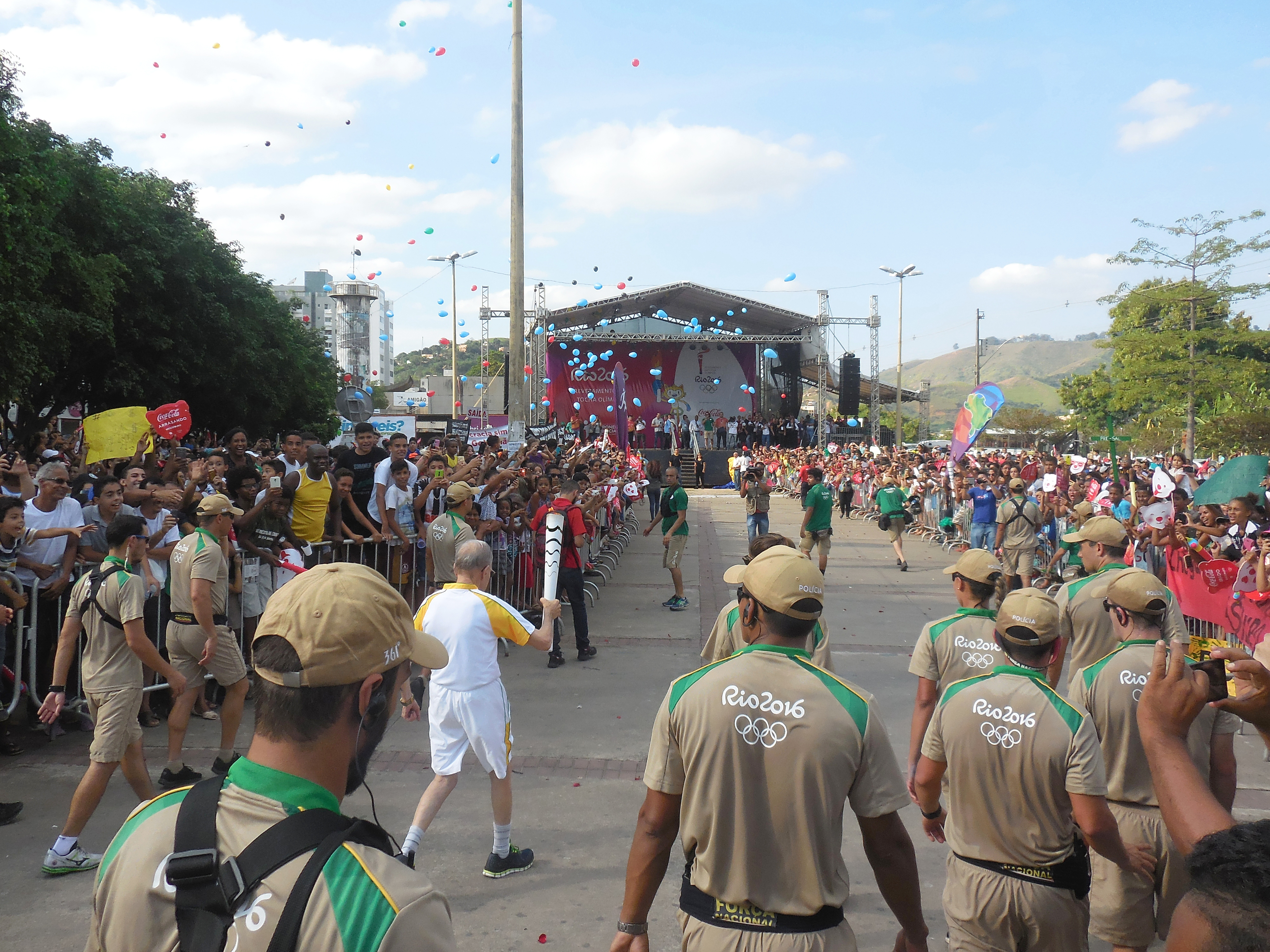 Don Lélis Lara, Bishop Emeritus of the Roman Catholic Diocese of Itabira-Fabriciano, with the olympics torch relay in the Estação square, in Coronel Fabriciano, Minas Gerais, Brazil.